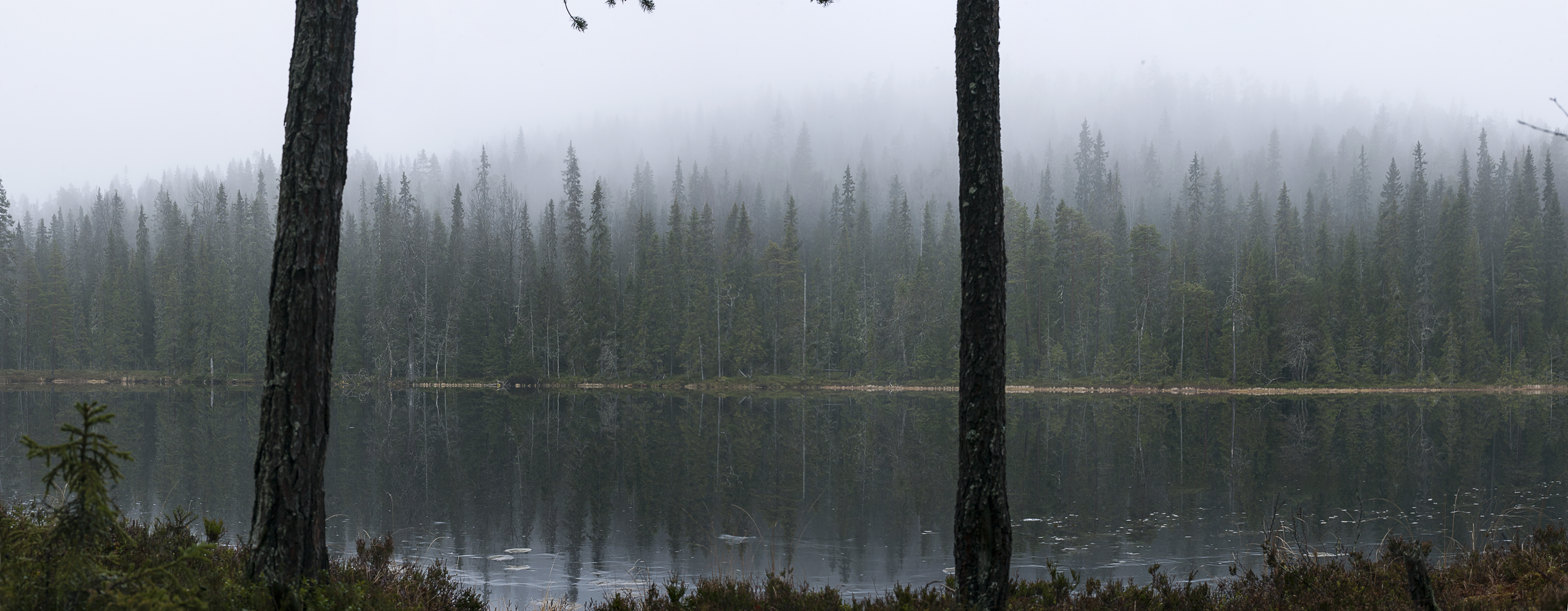 A panorama picture of Inner-Abborrtjärnen